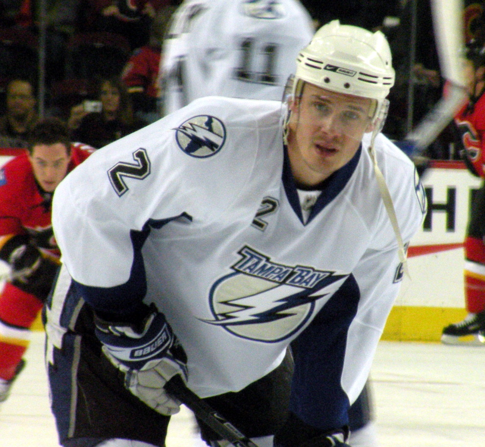 Lucas Krajicek of the Tampa Bay Lightning warming up prior to a game against the Calgary Flames in Calgary.